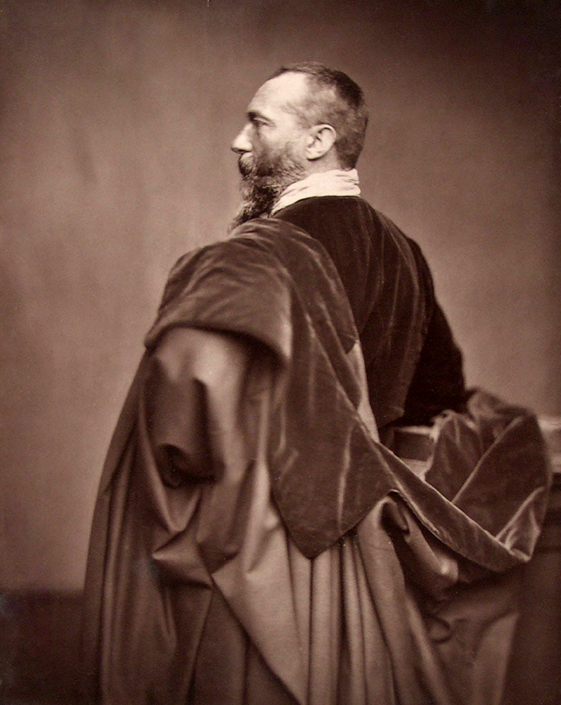 Woodburytype of Alphonse Karr